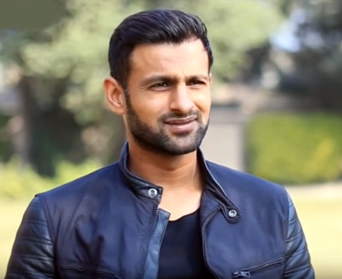 Shoaib Malik answering RAPID FIRE questions (PCB)